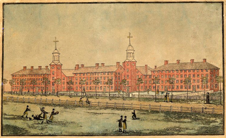 "A View of the Buildings of Yale College at New Haven," lithograph, published by A. Doolittle & Son, New Haven. Courtesy of the Yale University Manuscripts & Archives Digital Images Database.